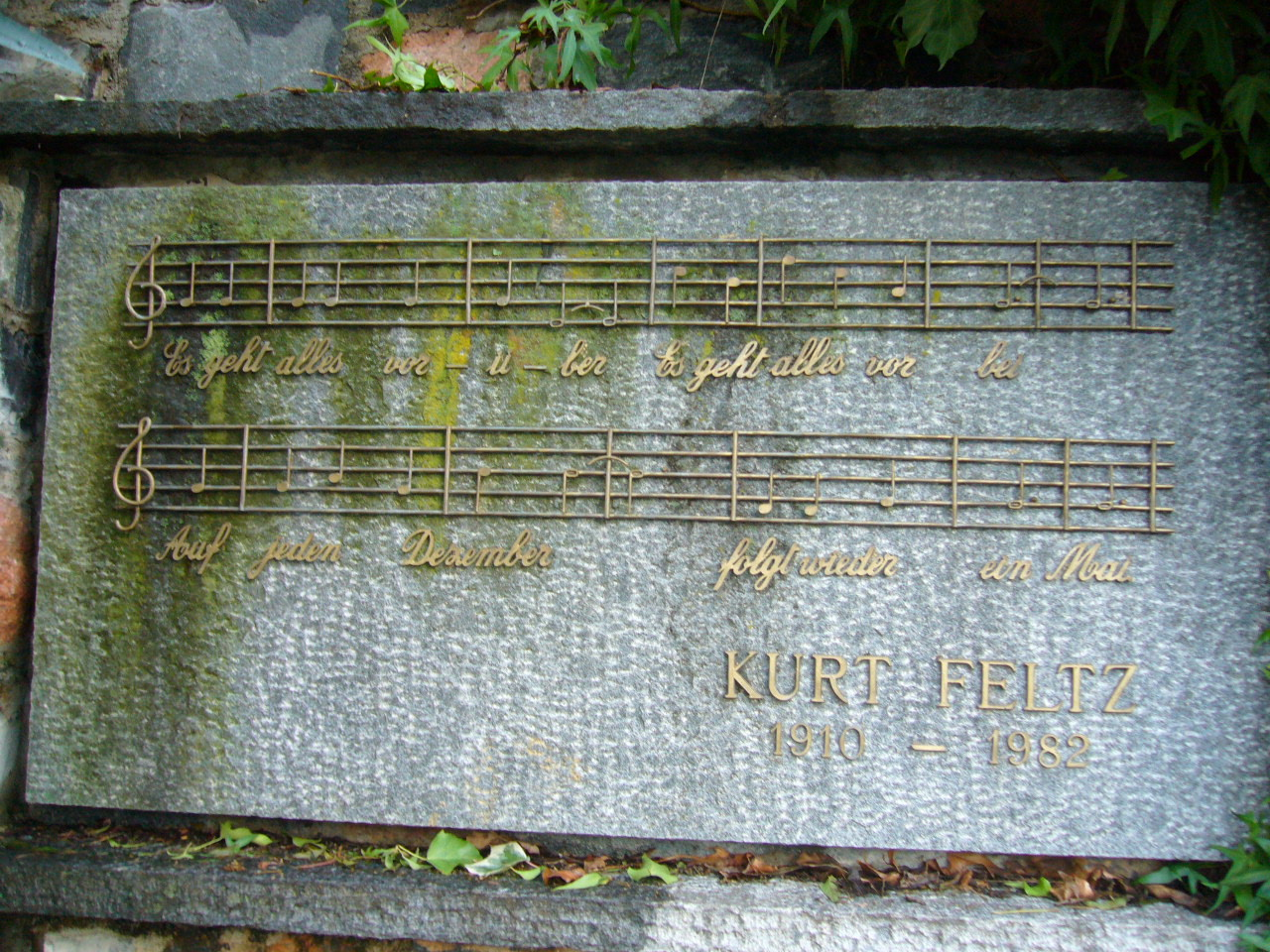 Memorial stone of Kurt Feltz, cementery of Morcote. Picture taken by Peter Berger. October 21, 2006.